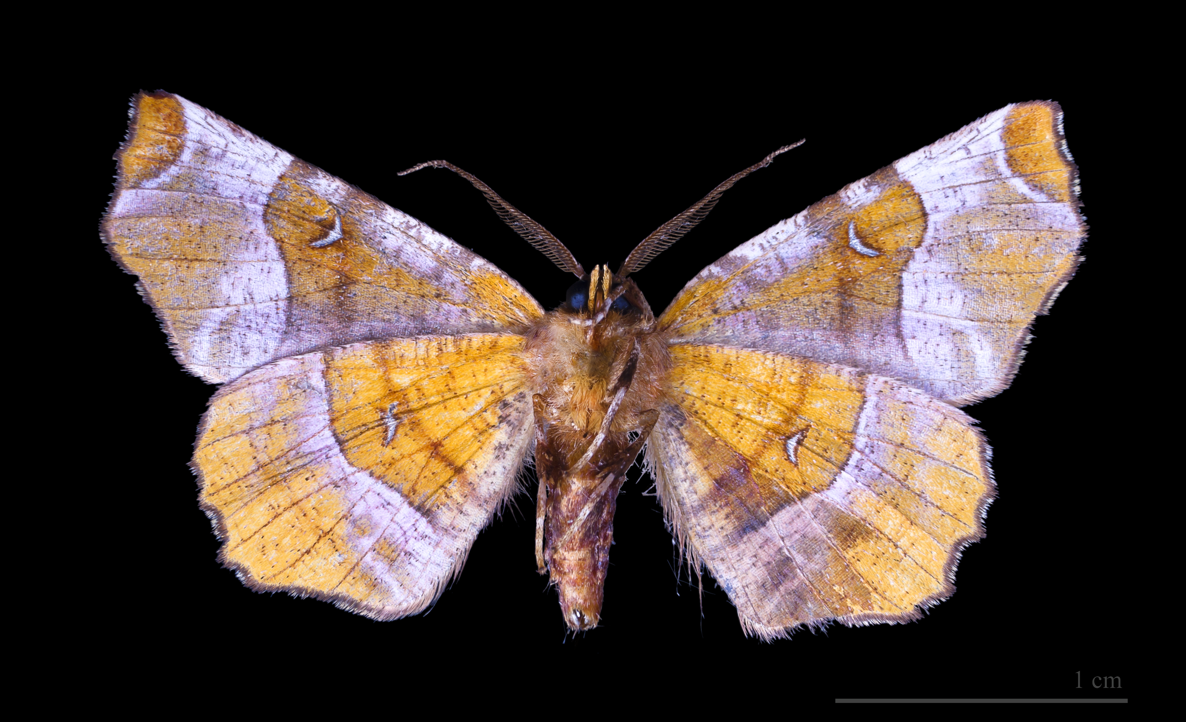 Purple Thorn ♂ - △ Ventral side Locality: Lasparets, Sainte-Croix-Volvestre, Ariège, France